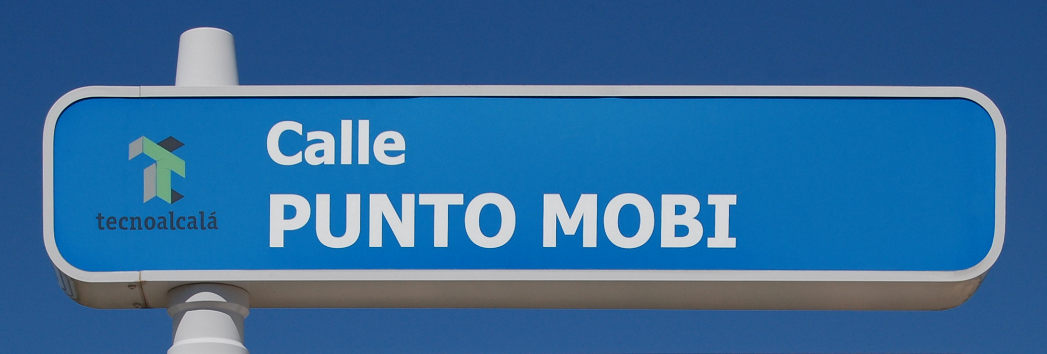 Street sign dedicated to domain name .mobi, in Alcalá de Henares (Community of Madrid - Spain).